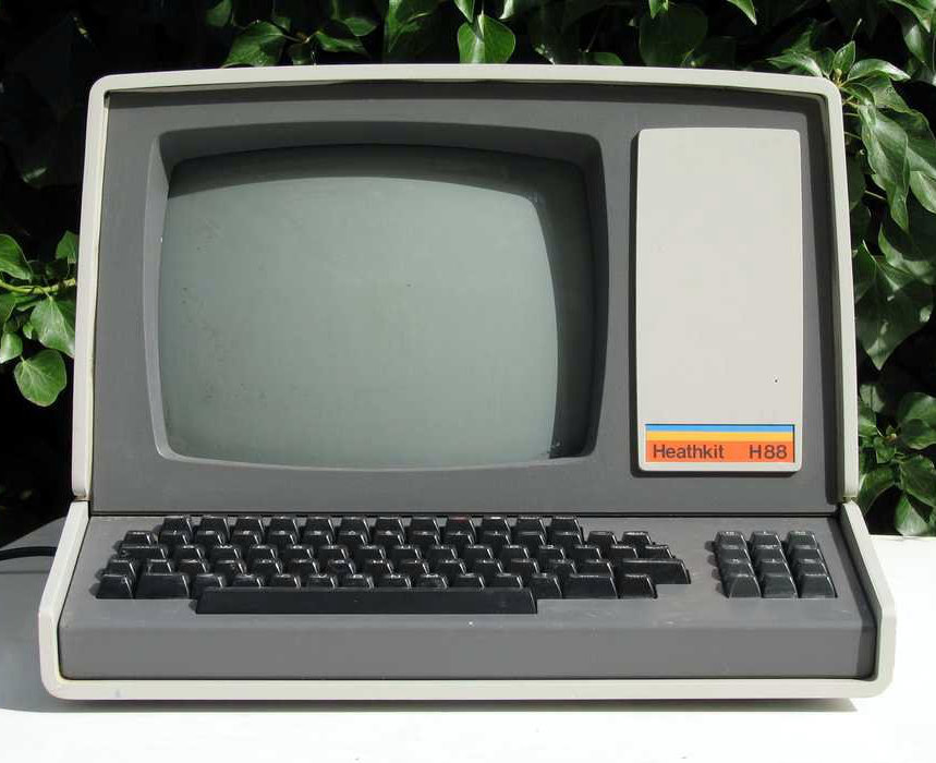 Heathkit H-88 8 bit computer